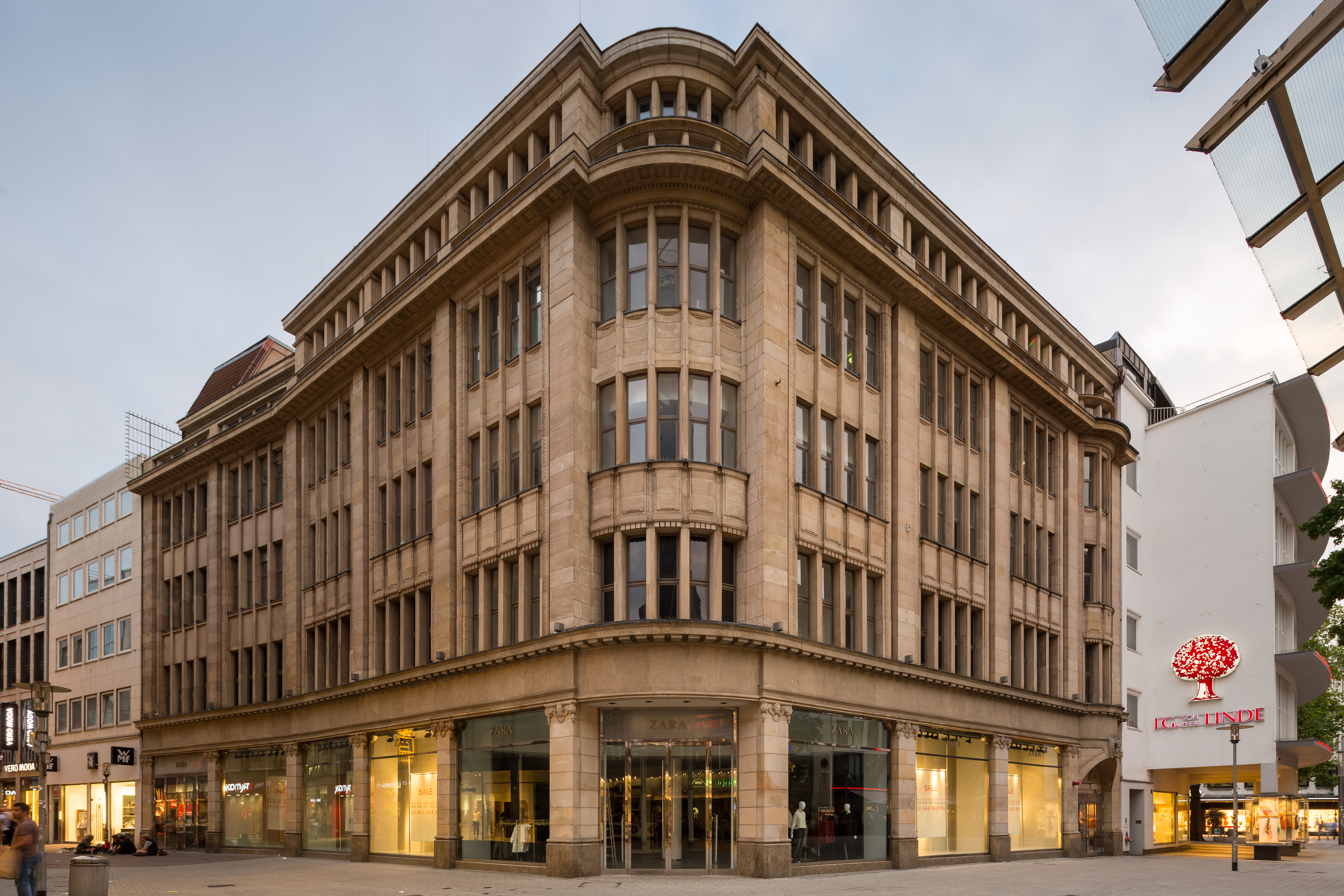 Business house located at Grosse Packhofstrasse and Osterstrasse in Mitte quarter of Hannover, Germany.